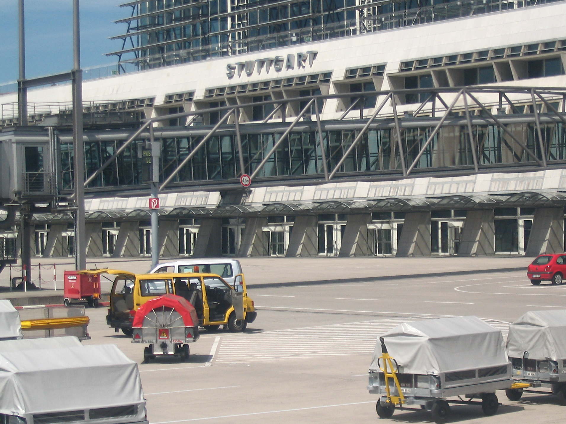 Image of the exterior of Stuttgart Airport taken on 2005-05-27 by James Bowes.